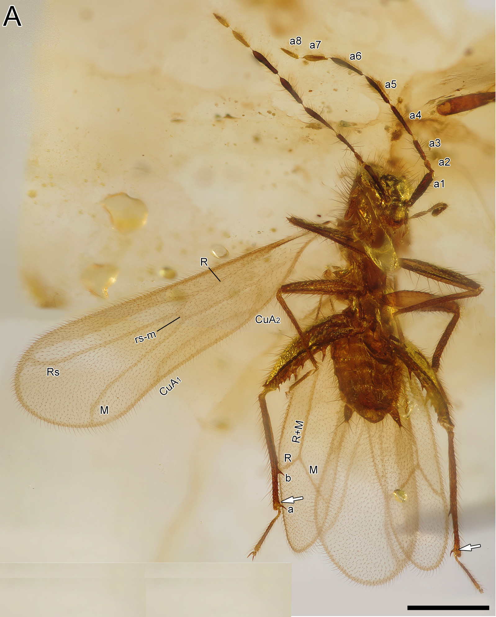 FIGURE 1. Zorotypus hirsutus, holotype (BUB2785). (A) Habitus in ventral view. Scale = 0.5 mm